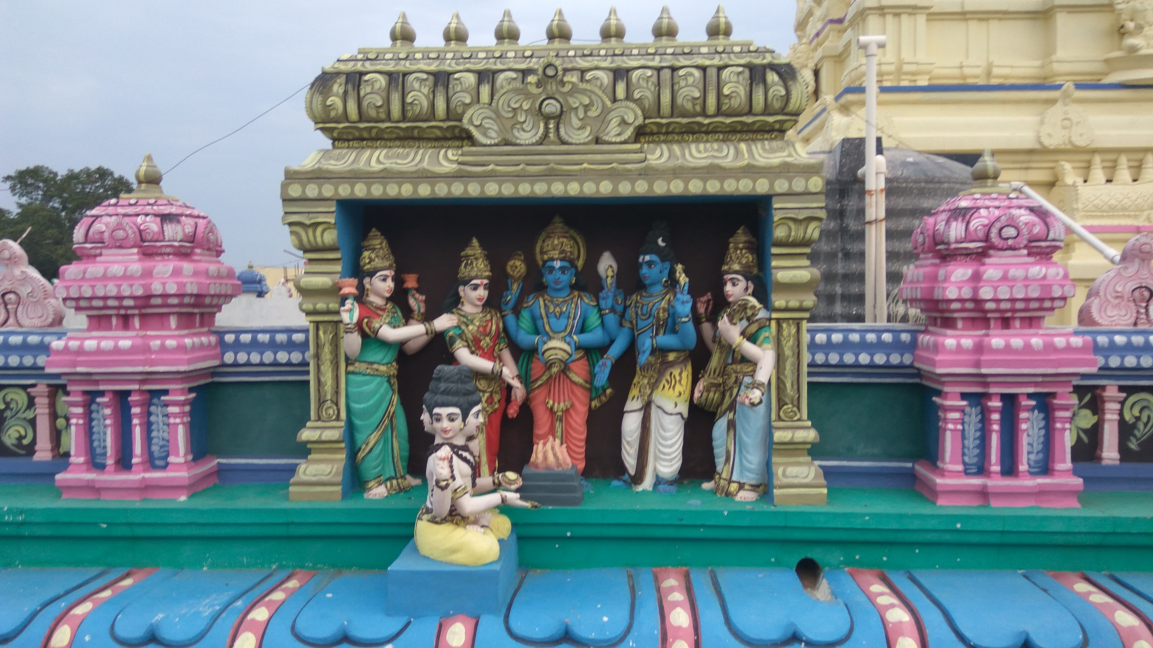 Rameshwara Temple, Raikal, Farooqnagar, Mahbubnagar District,Telangana State